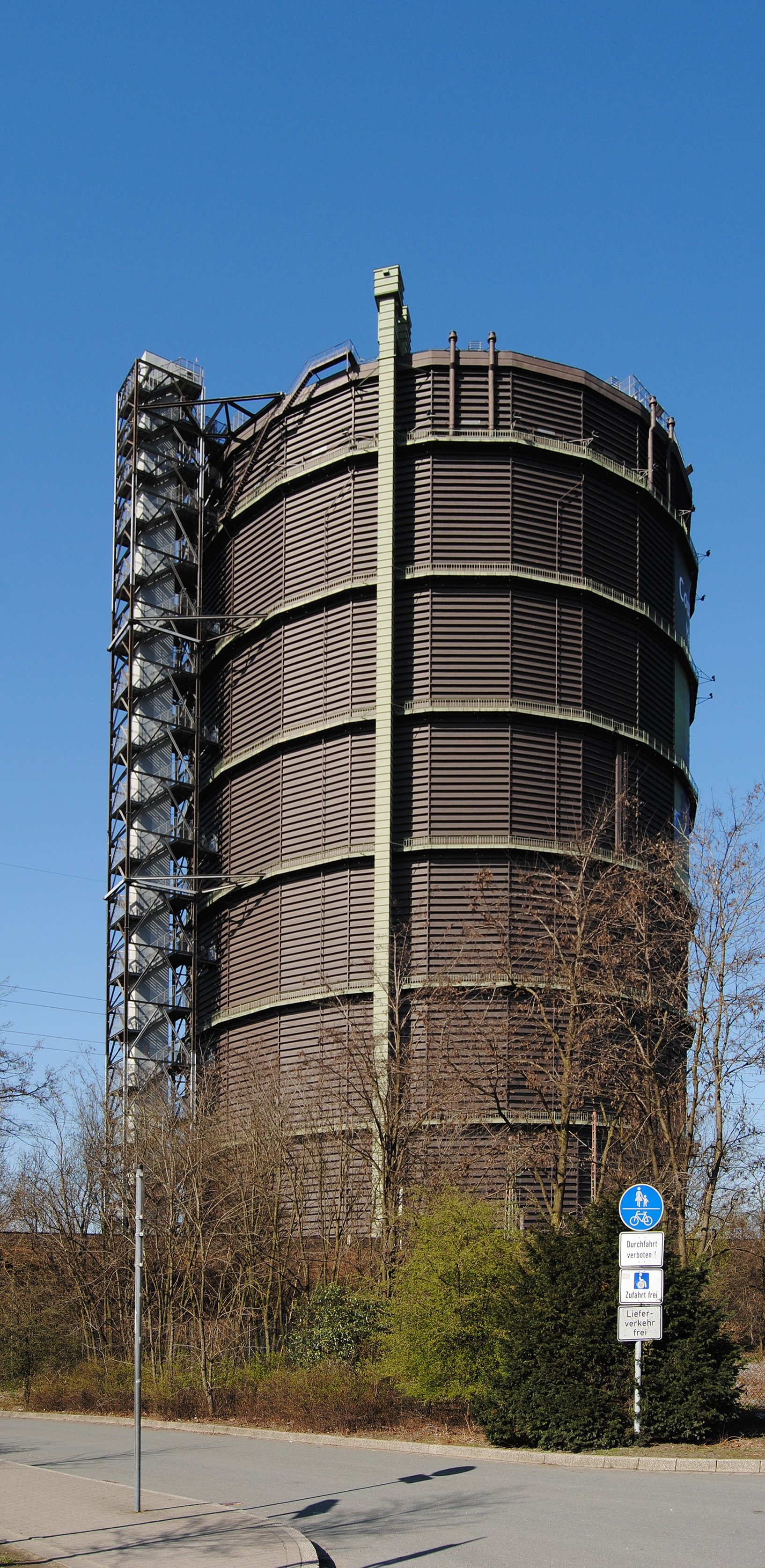 View on the south side of the Oberhausen gasometer (Oberhausen, North Rhine-Westphalia, Germany)